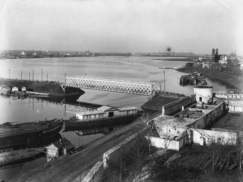 Kotorosl river in Yaroslavl.